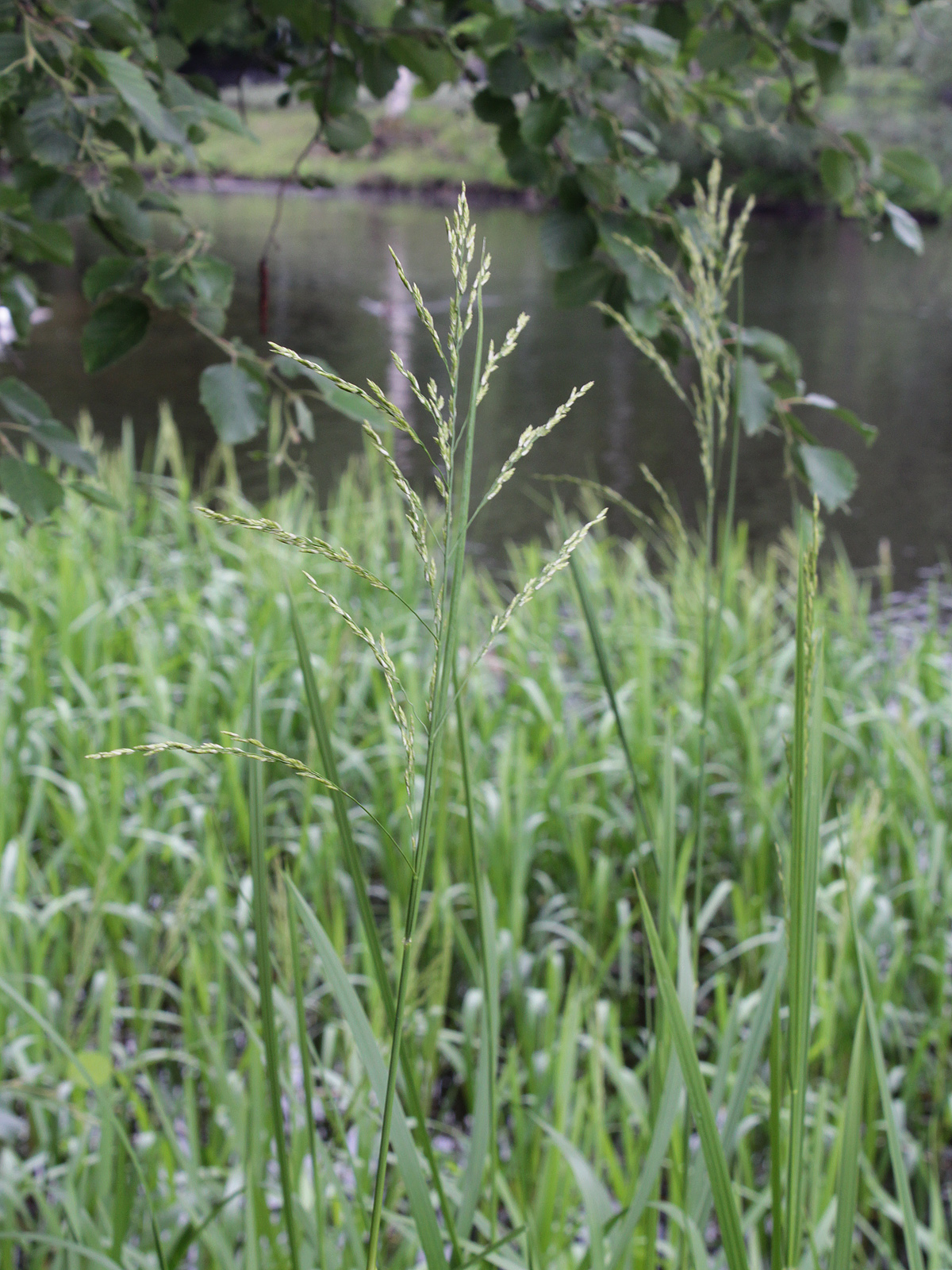 Poaceae, Glyceria maxima